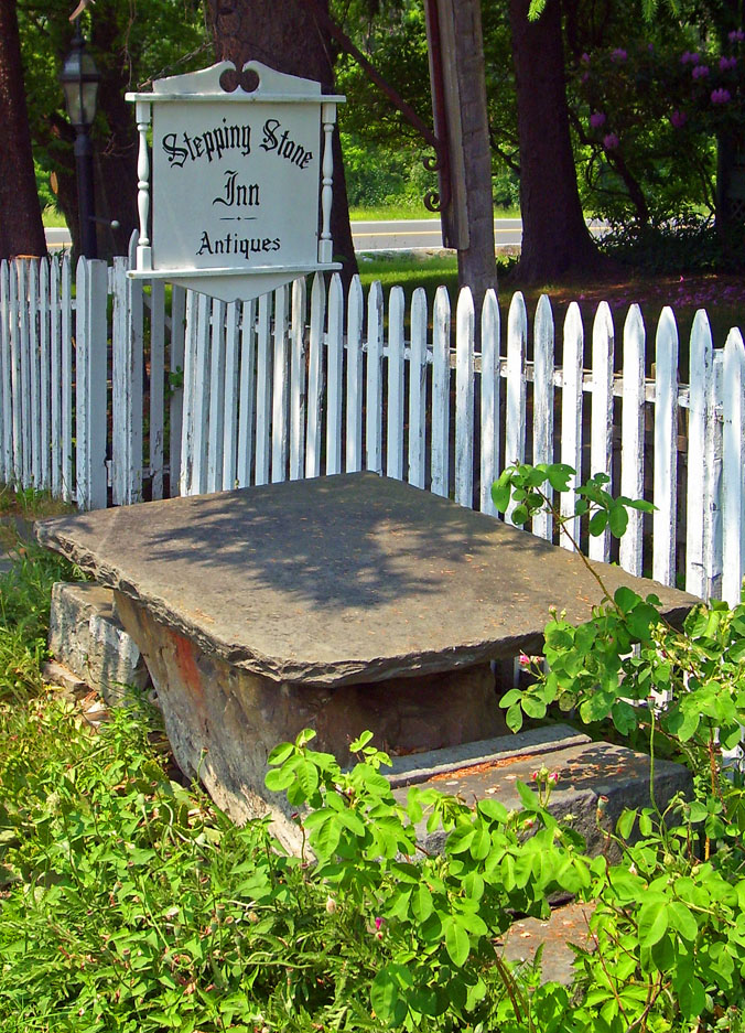 John Tears Inn, Wallkill, Orange County, New York. – The original stepping stone, which allowed travelers to easily disembark from carriages, survives today and lends its name to the business on the premises.